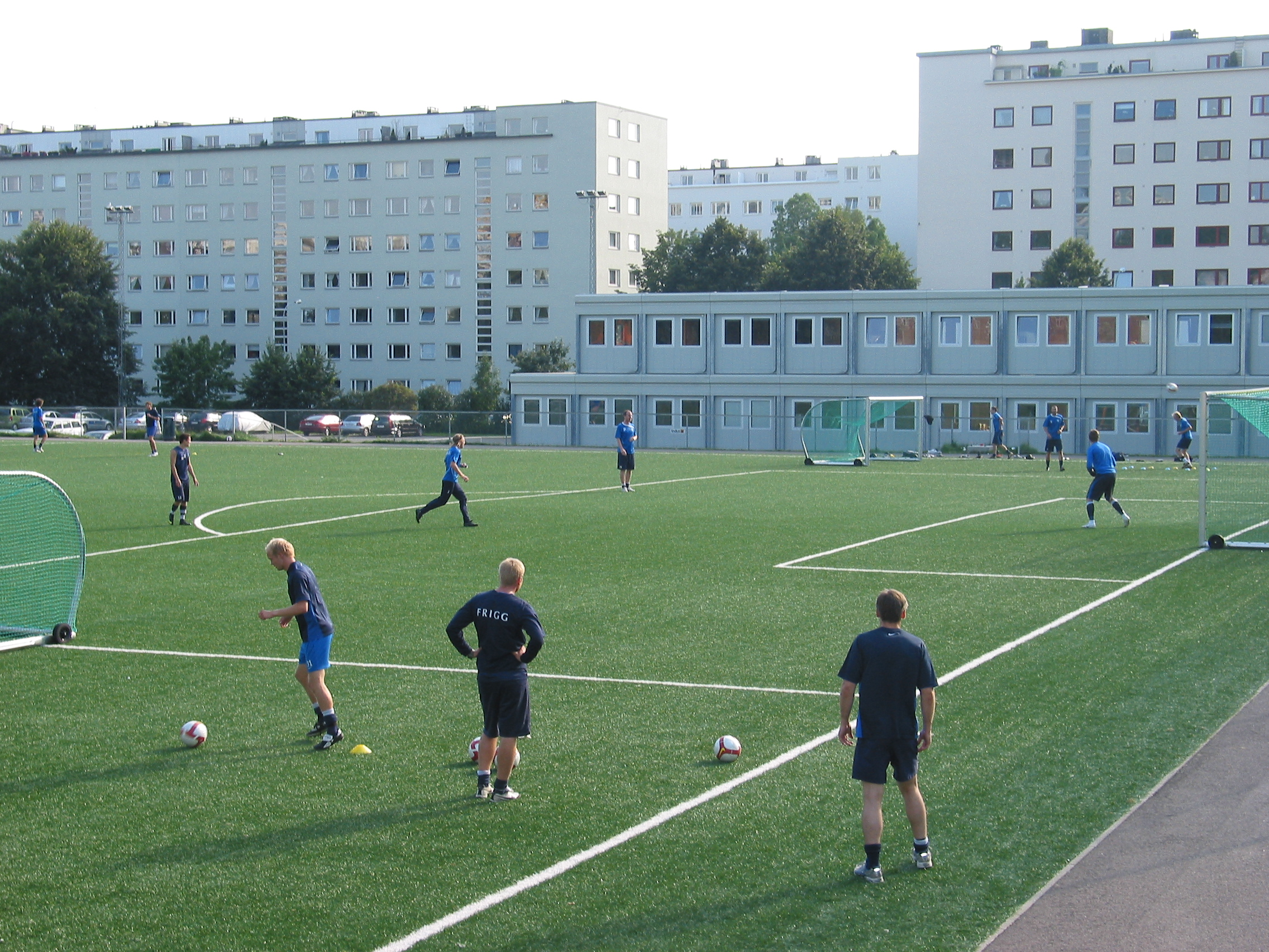 Senior team of FK Frigg Oslo trains at Friggbanen, Marienlyst, Oslo, Norway.